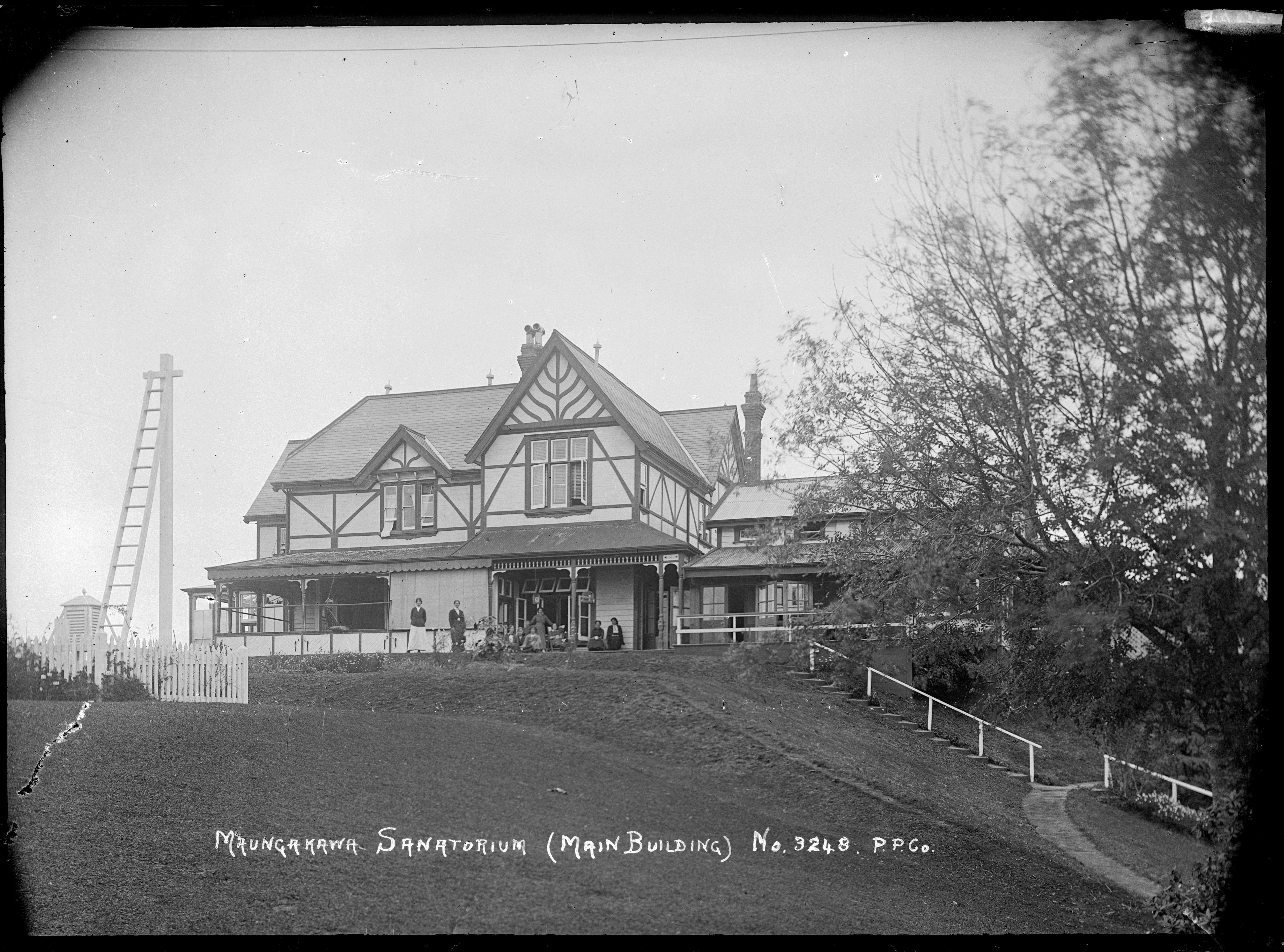 View of the main building at Te Waikato Sanatorium at Maungakawa. The building was originally owned by the Thornton family, with half-timbering in the upper storey. Photographed by Price Photo Co. William Archer Price was operating as Price Photo Co circa 1910-1930. Inscriptions: Inscribed - Photographer's title on negative -bottom centre: Maungakawa Sanatorium (Main building). No. 3248. P.P.Co.. Quantity: 1 b&w original negative(s). Physical Description: Dry plate glass negative 4.5 x 6.5 inches Te Waikato Sanatorium at Maungakawa, view of the main building. Price, William Archer, 1866-1948 :Collection of post card negatives. Ref: 1/2-000177-G. Alexander Turnbull Library, Wellington, New Zealand.